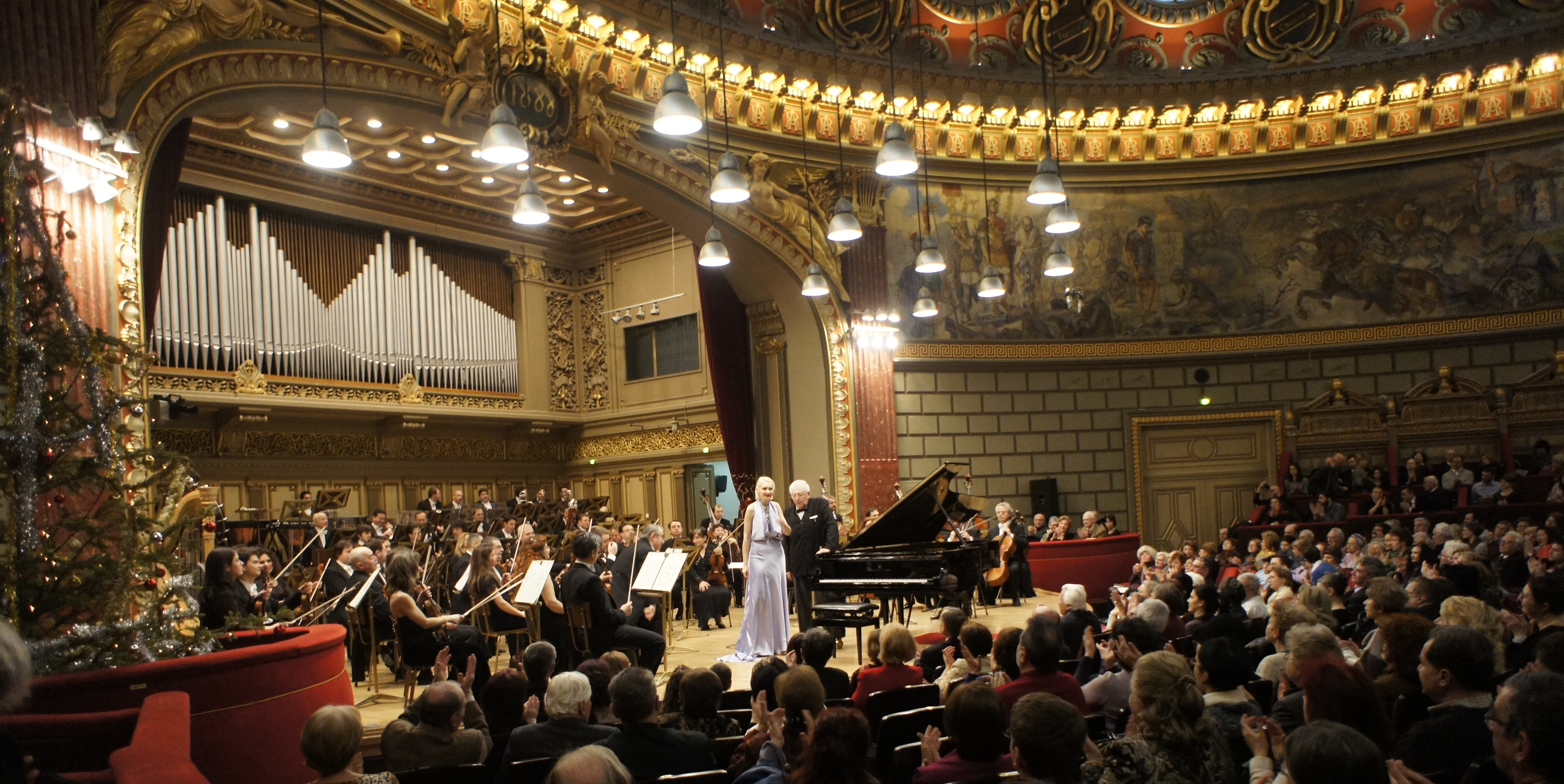 Concerts at The Romanian Athenaeum, Filarmonica "George Enescu"